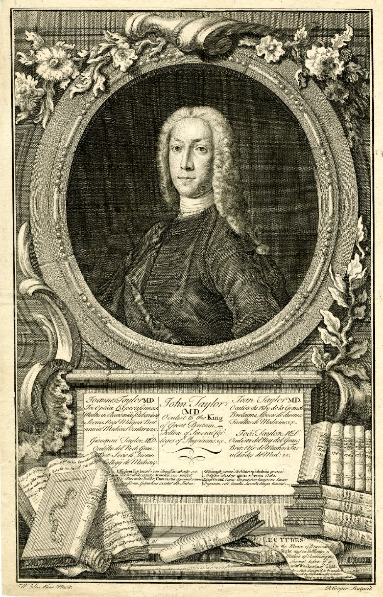 Portrait of John Taylor (1703–1772), British eye surgeon.